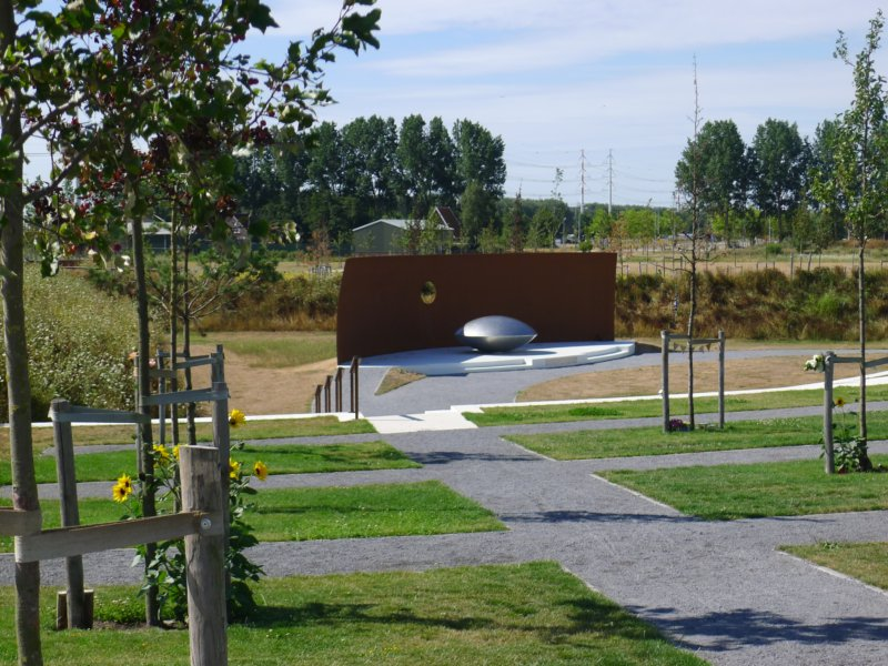 The Dutch National Monument MH17 in Vijfhuizen near airport Schiphol in the Netherlands